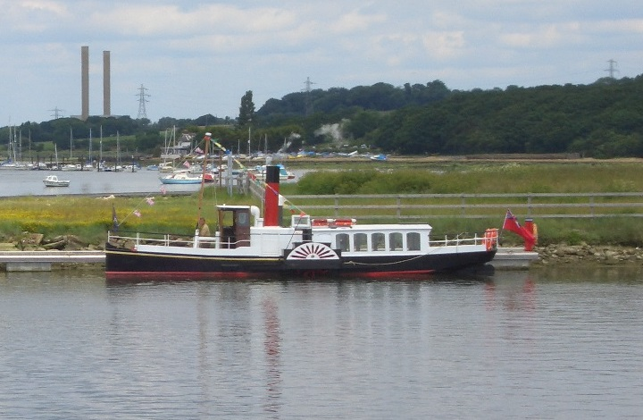 The PS Monarch on its berth at Island Harbour.